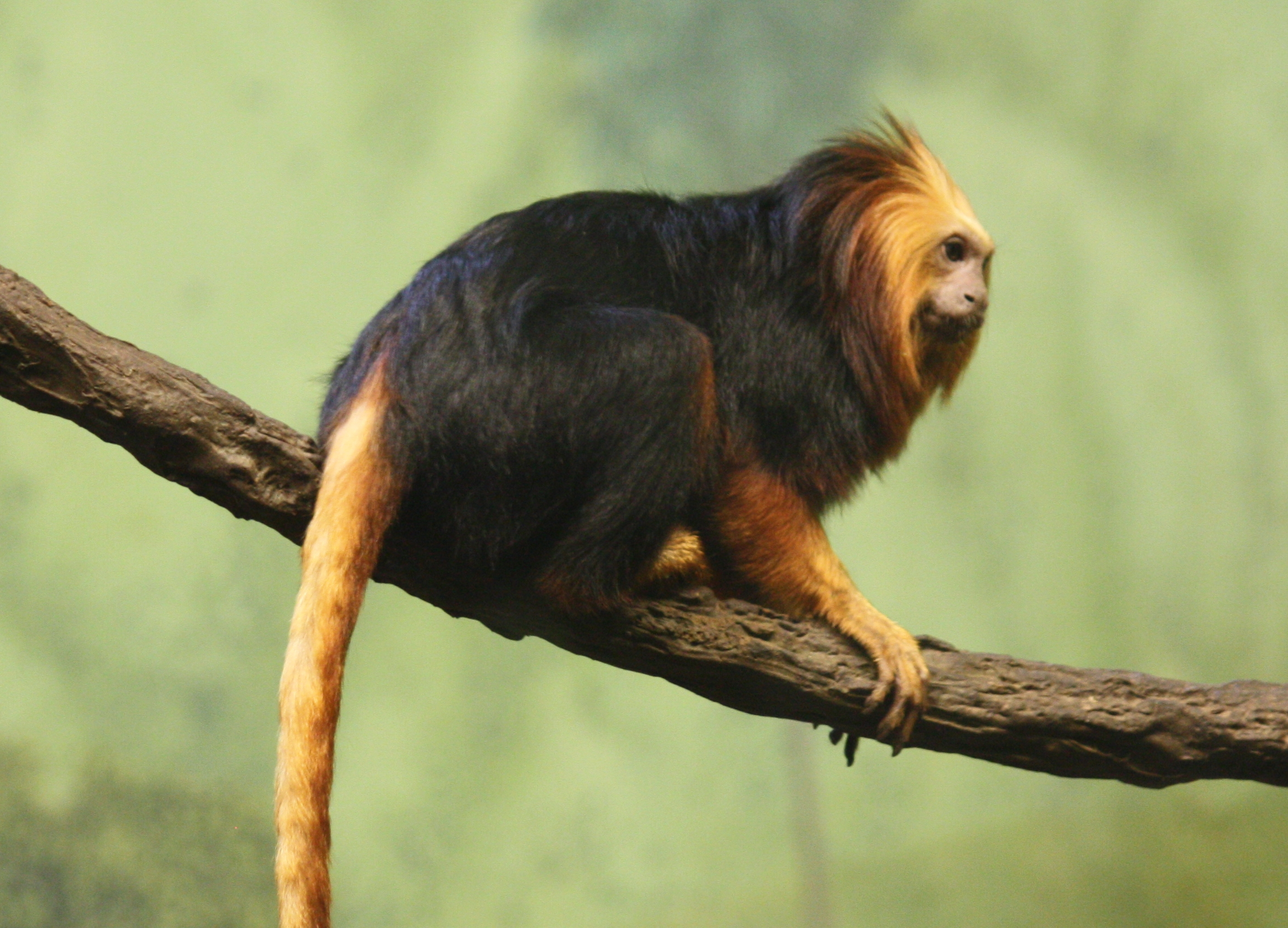 Golden-headed Lion Tamarin Leontopithecus chrysomelas at the Cincinnati Zoo